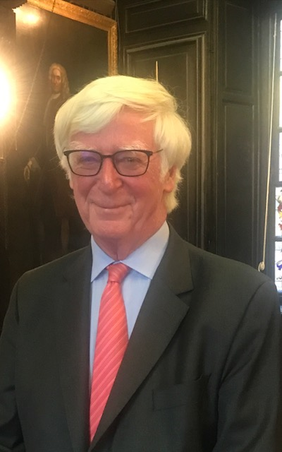 Sean P. F. Hughes, surgeon, attending the Sydenham lecture at the Worshipful Society of Apothecaries, London